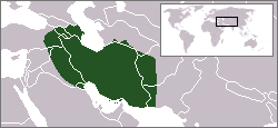 The location of the ancient Safavid Empire, an Iranian kingdom, c.1512. Modified from public domain resources.